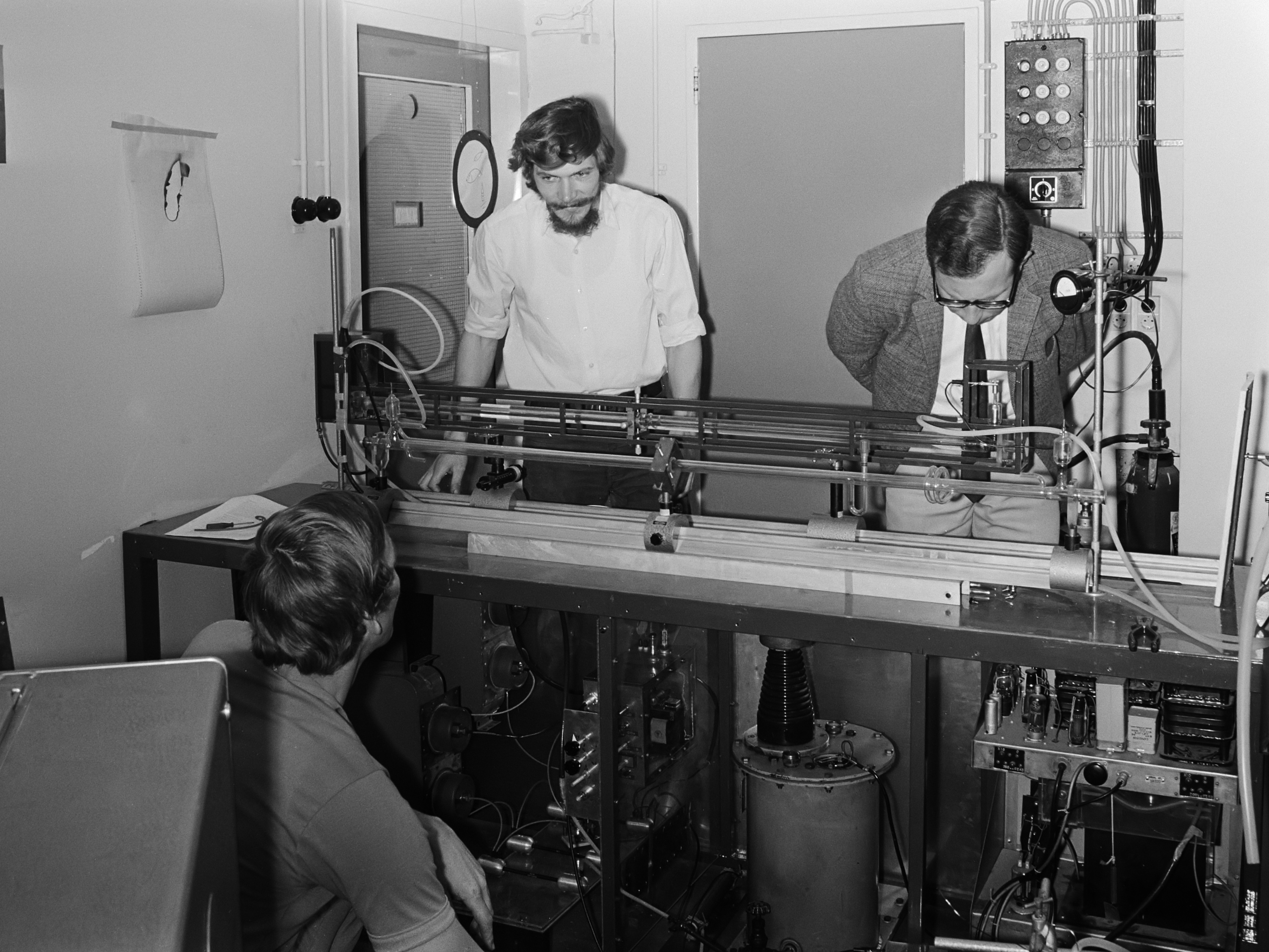 Laboratoria van de Universiteit van Amsterdam: Laboratorium van professor Kistemaker in de Kruislaan 23 april 1971